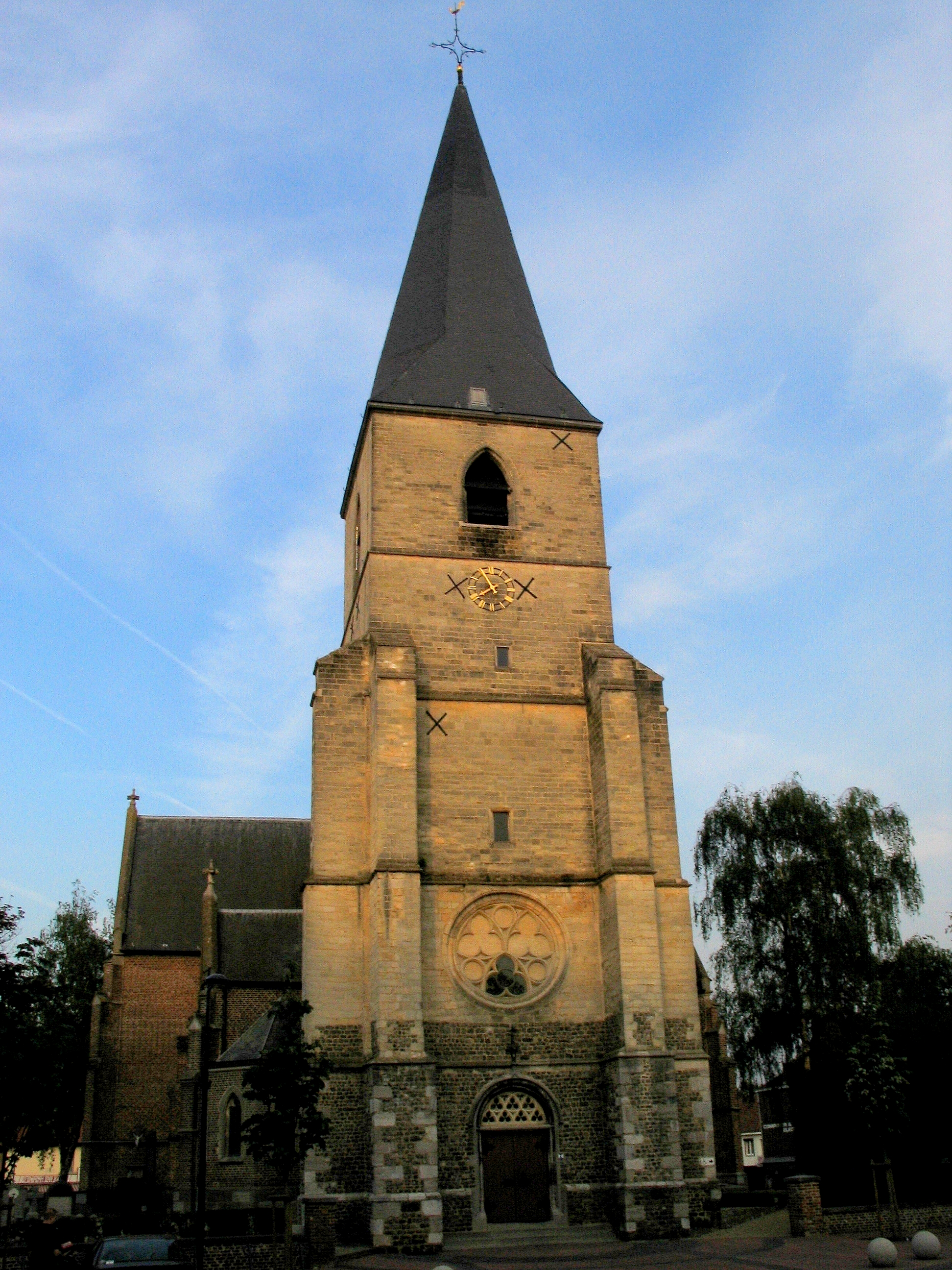 Saint Aldegonde's church in Alken (Belgium)